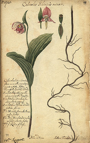 Cypripedium guttatum